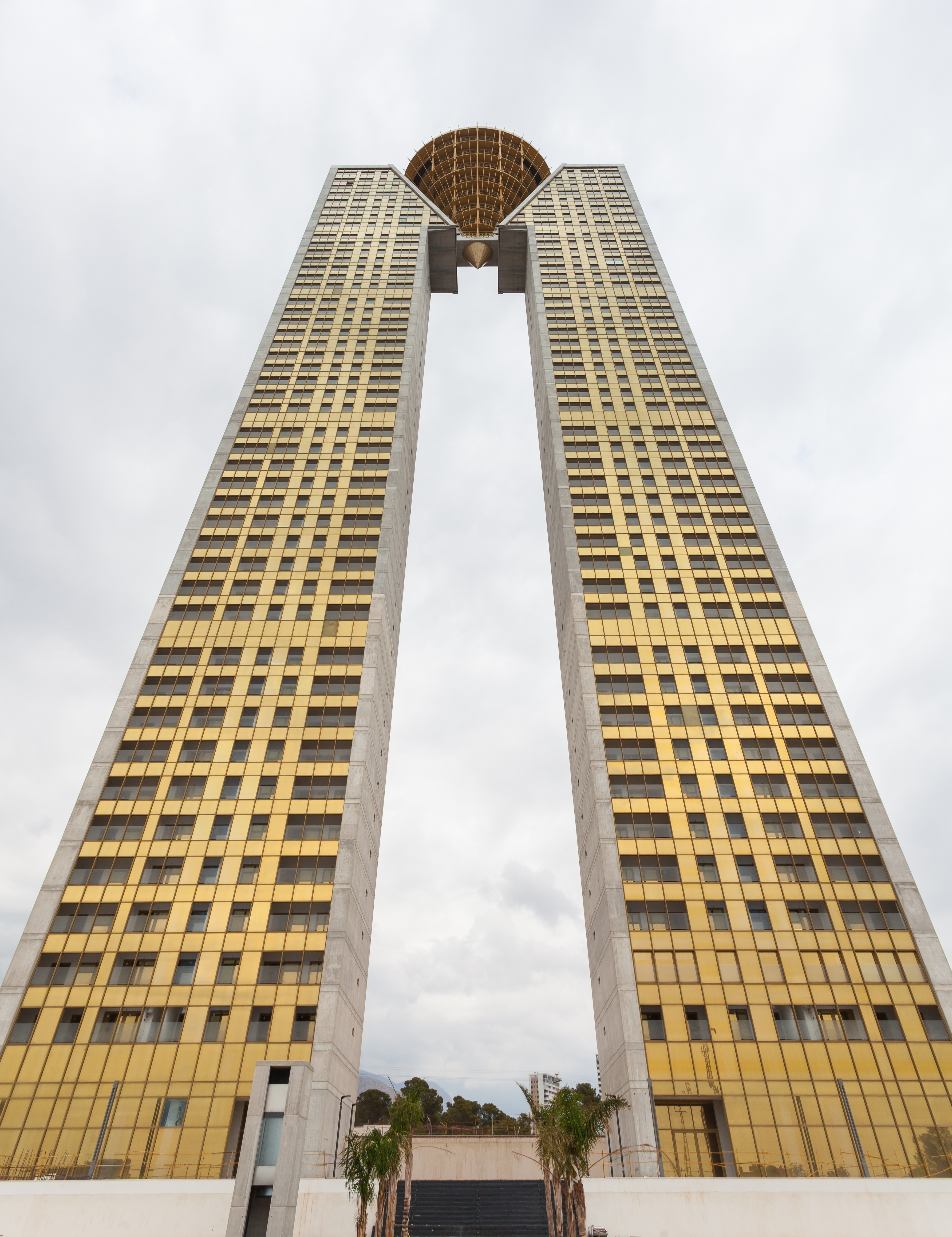 InTempo building, Benidorm, Spain